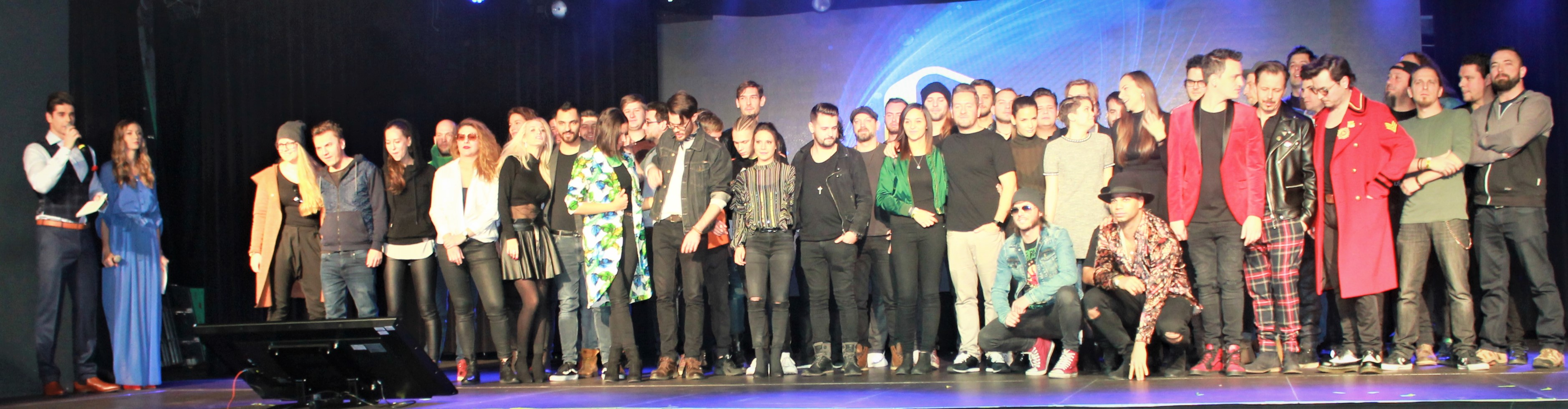 A Dal 2019 participants: the best 30